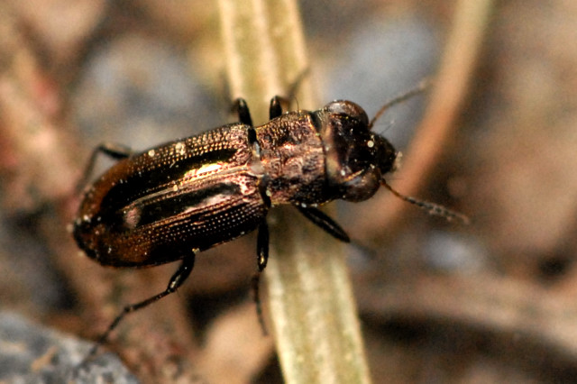 Notiophilus biguttatus from Commanster, Belgian High Ardennes .